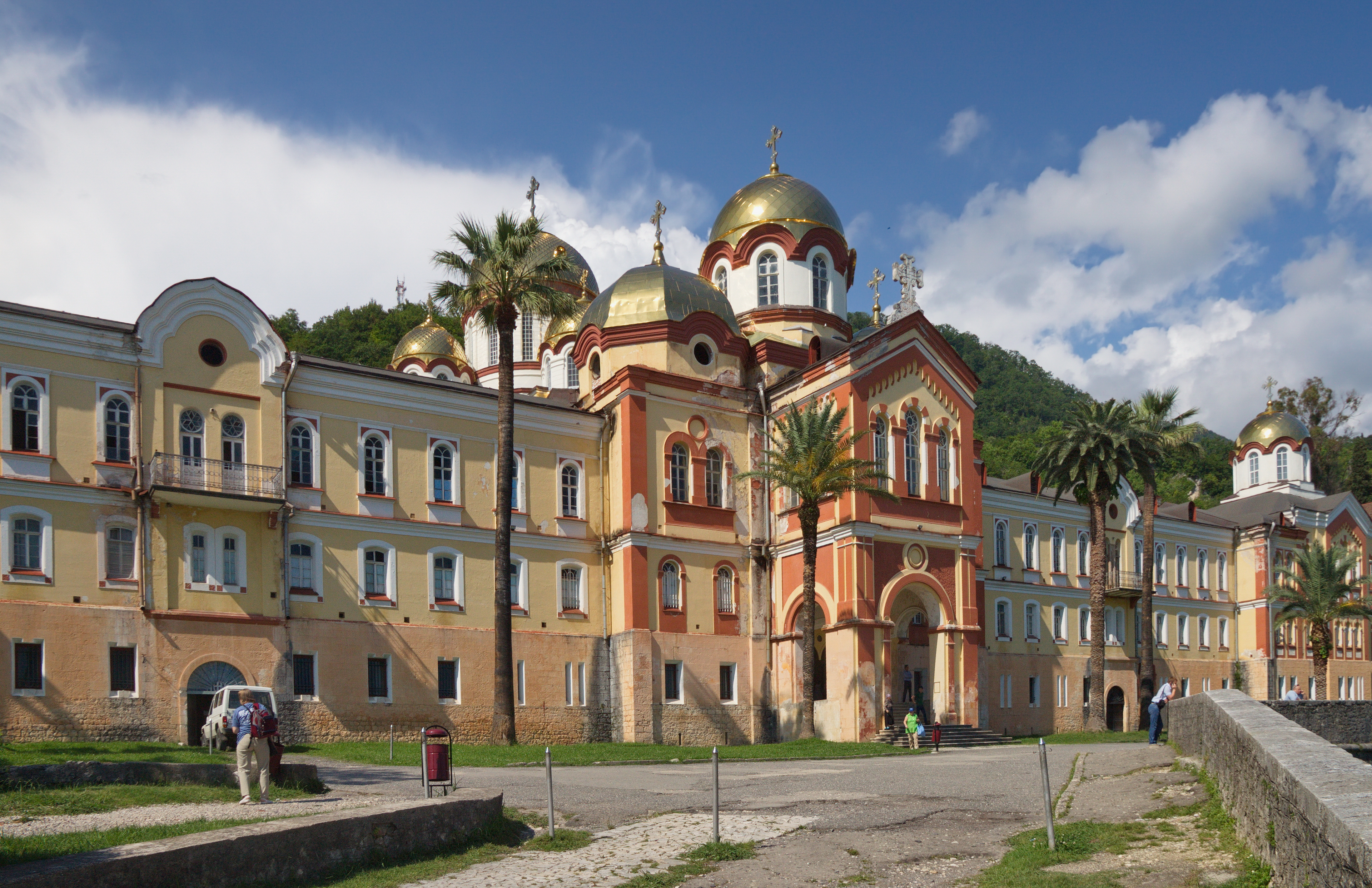 Monastery of St. Apostle Simon the Zealot. New Athos, Gudauta District, Abkhazia.